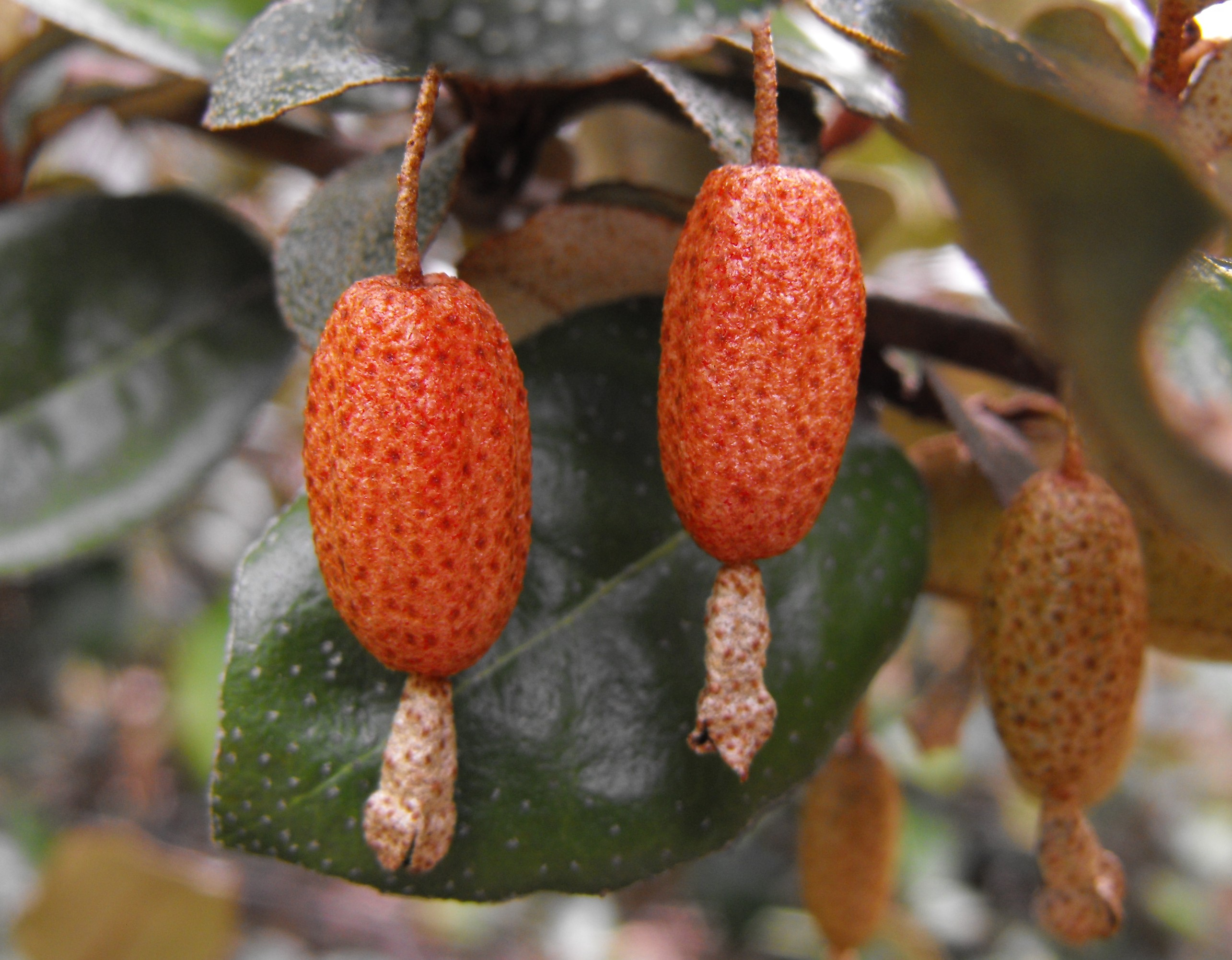 Elaeagnus pungens 'Fruitlandii' in the Water Conservation Garden at Cuyamaca College, El Cajon, California, USA. Identified by sign.